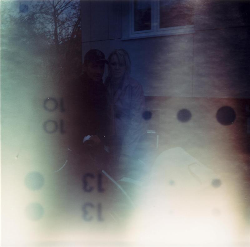 Mistake: By accident, light came into the film from the side. You can see also the number sgns from the paper.